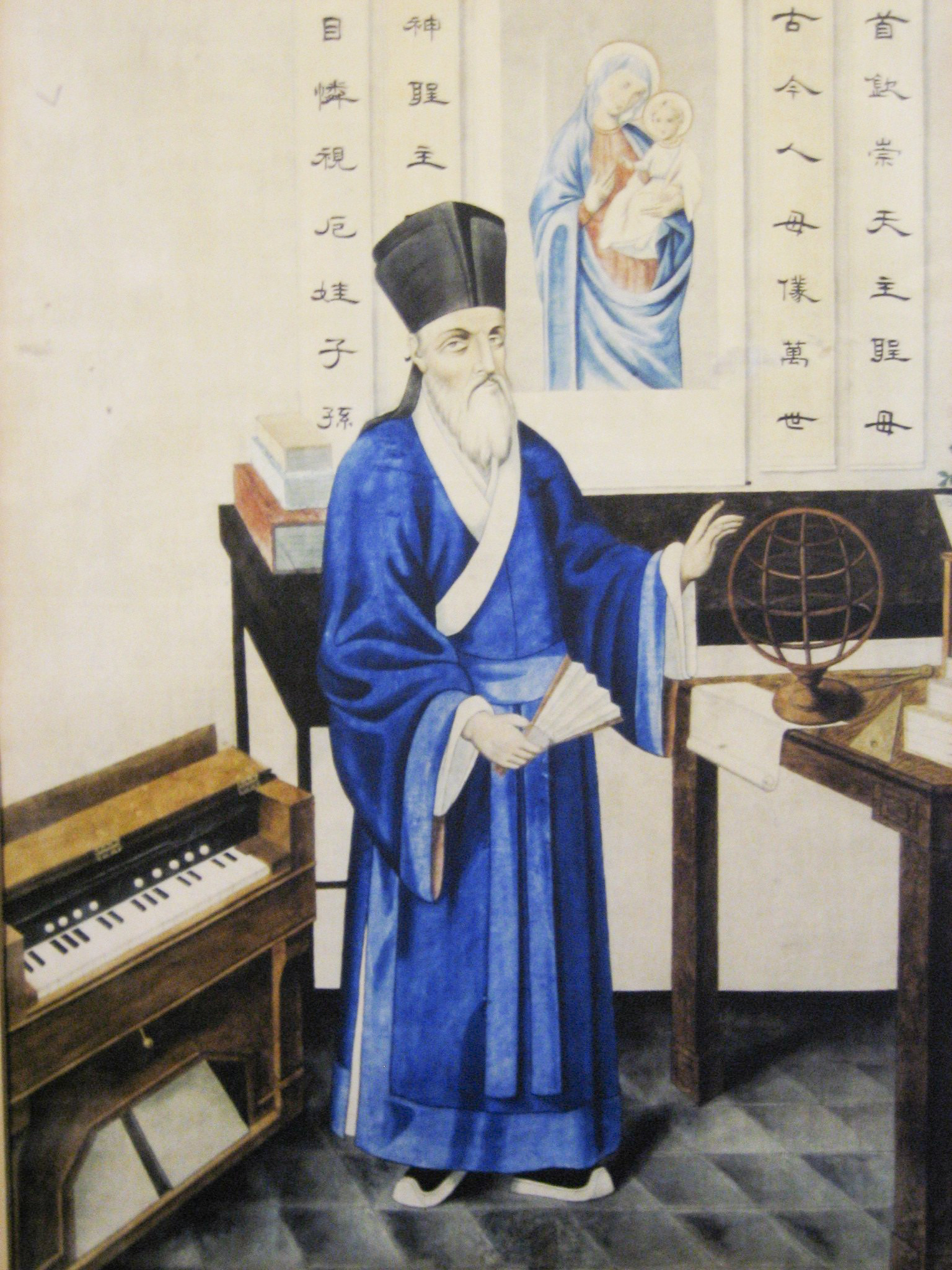 Matteo Ricci, photoed by Mountain, at Guangqi Park, Shanghai